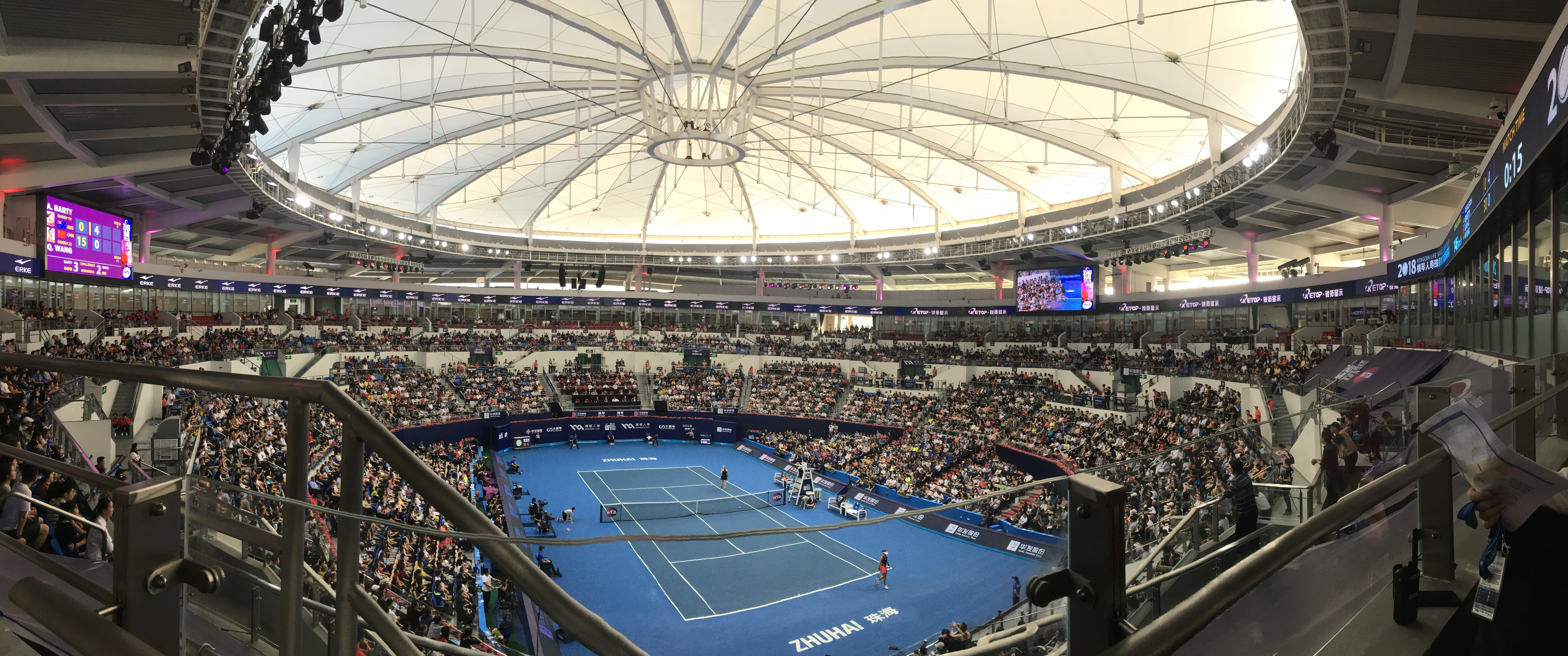 Huafa Center Court, 2018 WTA Elite Trophy Women's Singles 中文（中国大陆）: 摄于2018年珠海WTA超级精英赛女单决赛现场